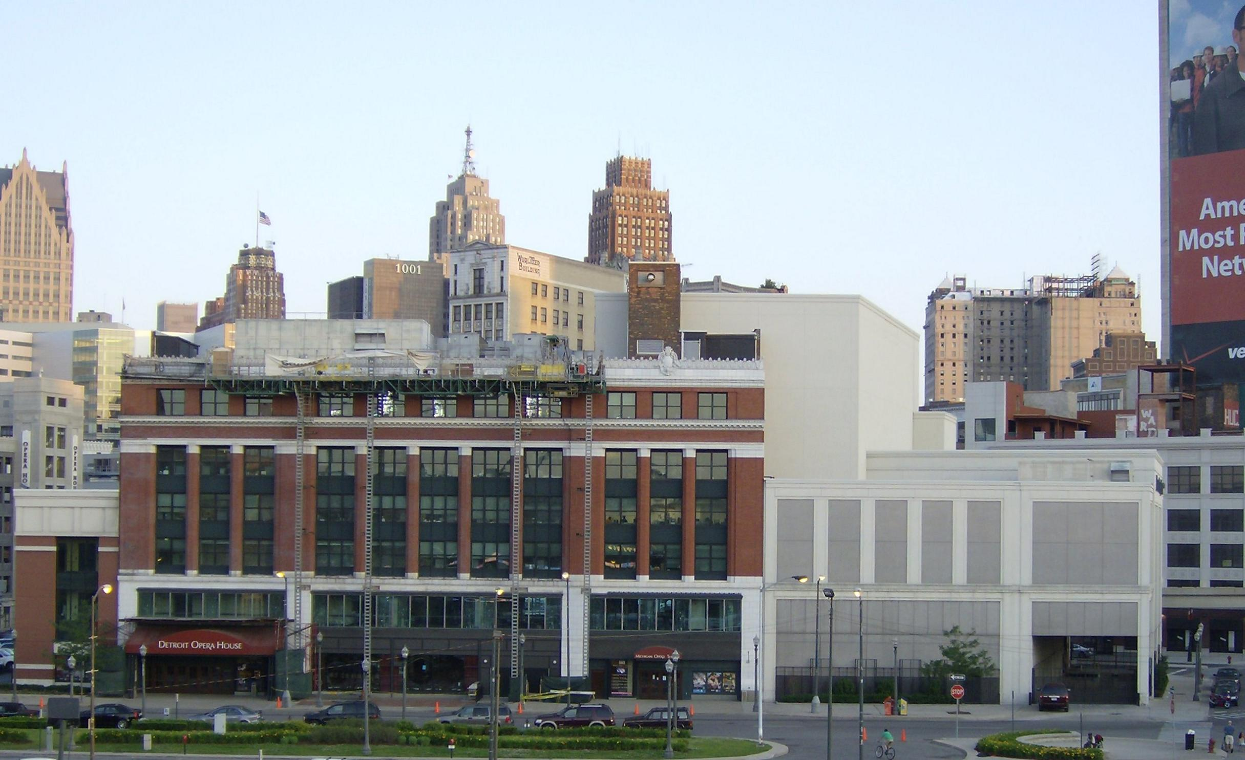 self made